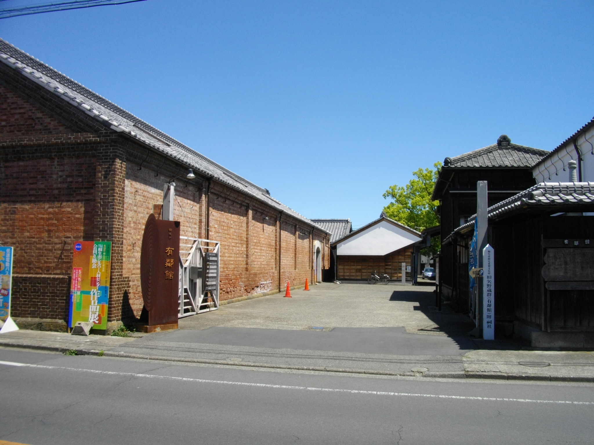 Yurinkan Building